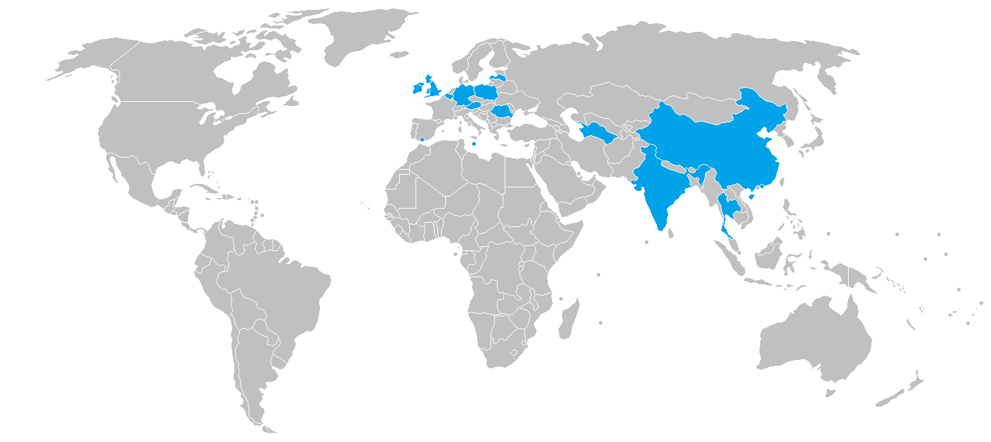 Nations hosting a World Snooker Tour event in 2017/18